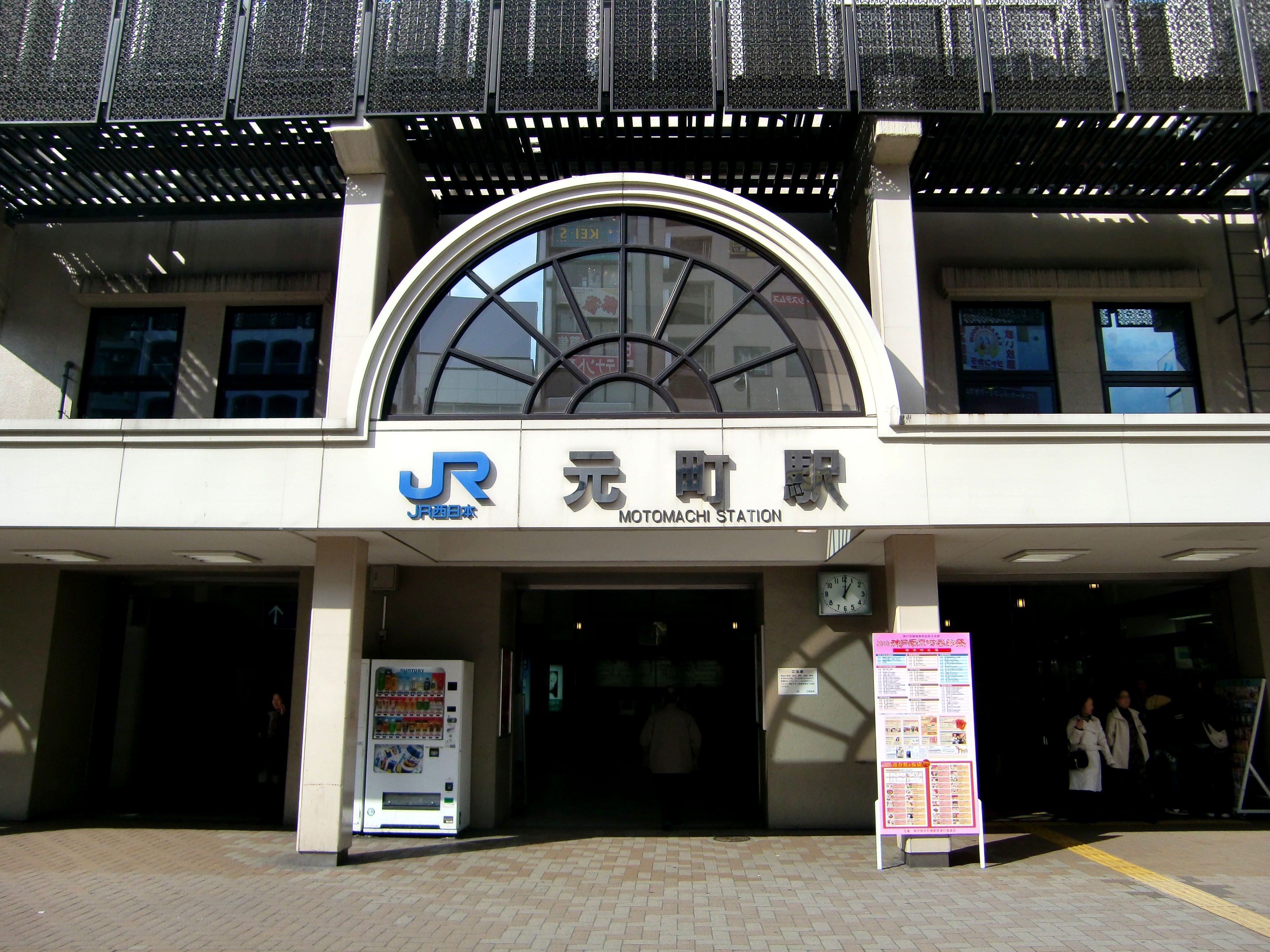 JR Motomachi Station,1-100 Motomachikokadori Chuo-ku Kobe-City hyogo Japan.